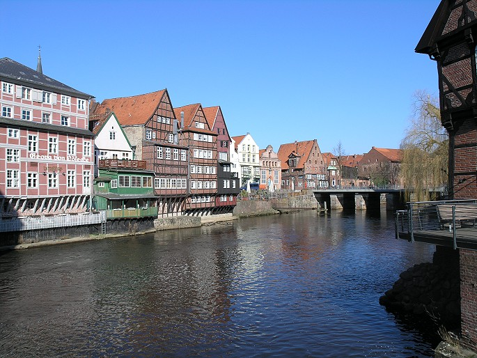 View from the so-called Brausebrücke or "Brause Bridge" over the old harbour in Lüneburg, Lower Saxony, Germany